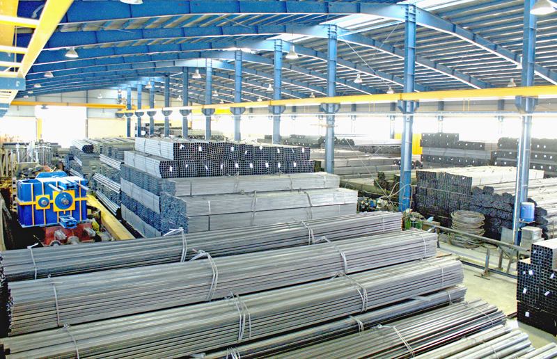 This is a part of the Isfahan Steel Profile's factory